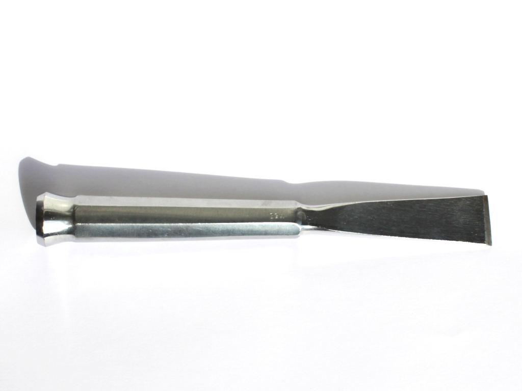 Chisel with hexahedral handle